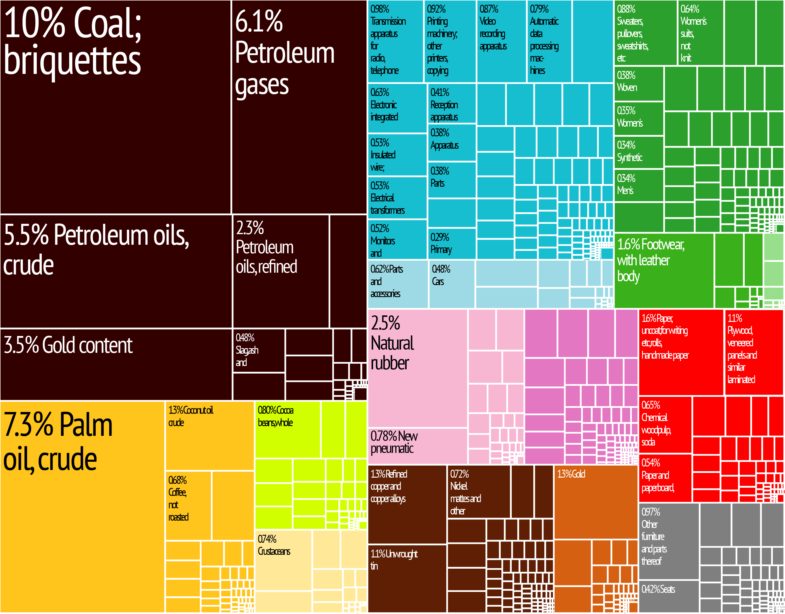 Indonesia Export Treemap from MIT Harvard Economic Complexity Observatory